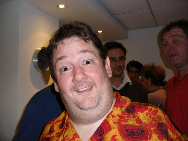 Johnny Vegas backstage at the filming of an episode of QI